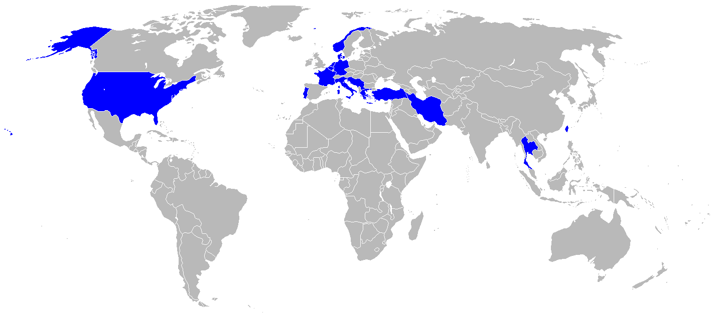 Map of the countries that used the F-84F Thunderstreak